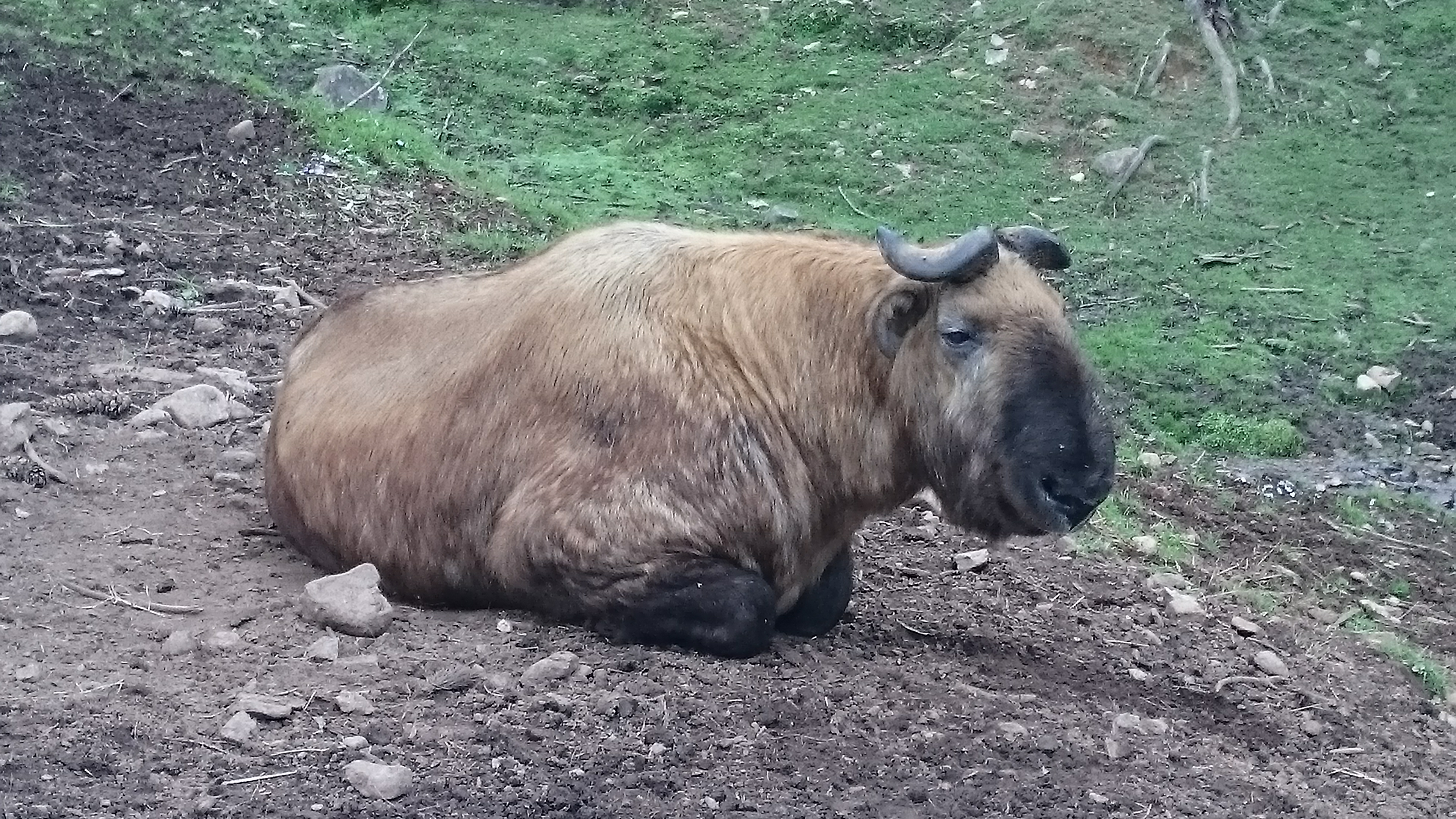 Bhutanese Takin